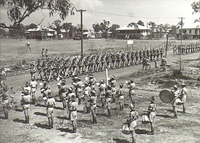 The band of the 10th/48th Battalion at Melville Oval, Darwin, Sep 1944